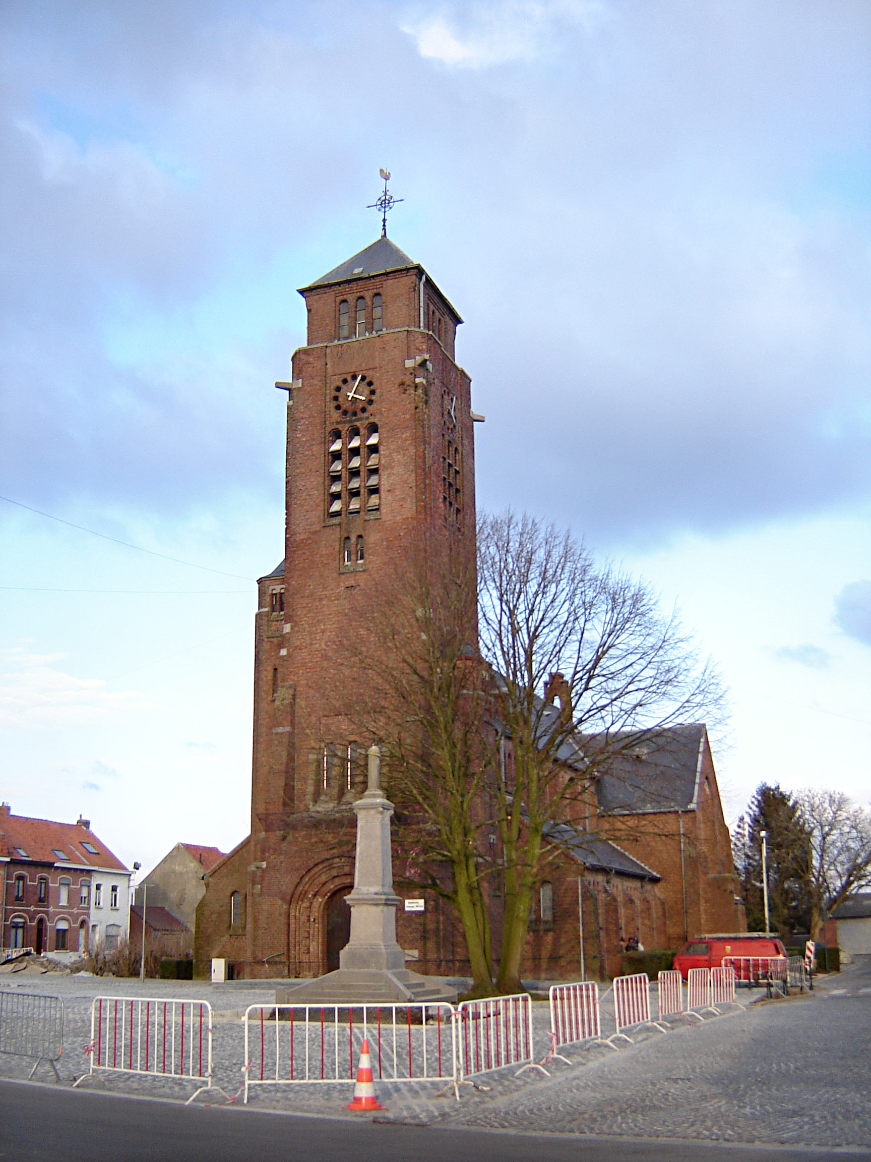 Church of Saint Martin in Bas-Warneton. Bas-Warneton, Comines-Warneton, Hainaut, Belgium